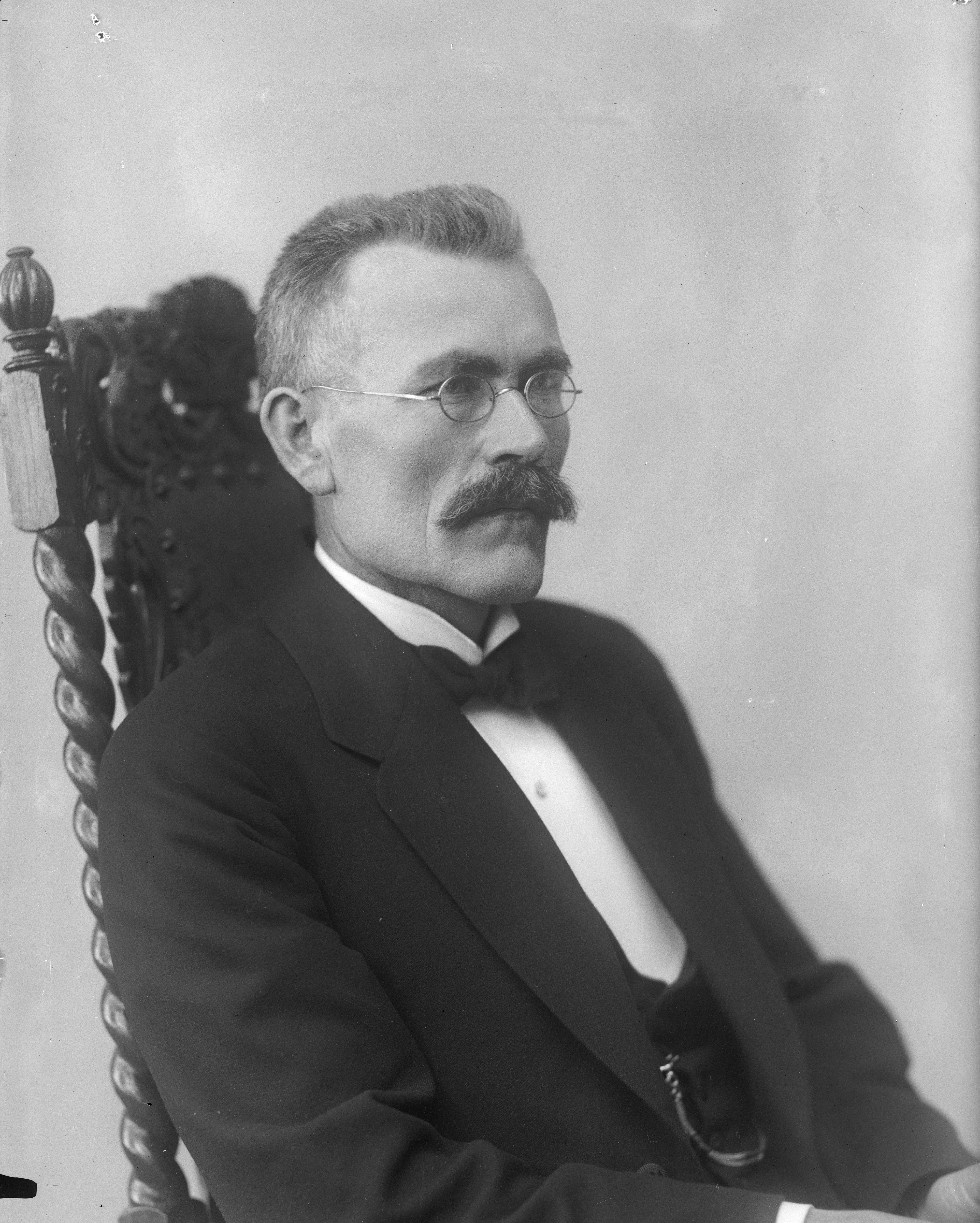 Photograph of the Finnish linguist and explorer Gustaf John Ramstedt (1863–1950).